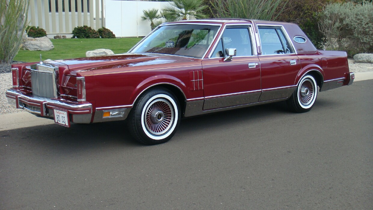 1980 Lincoln Mark VI Signature Series in red with leather fully optioned